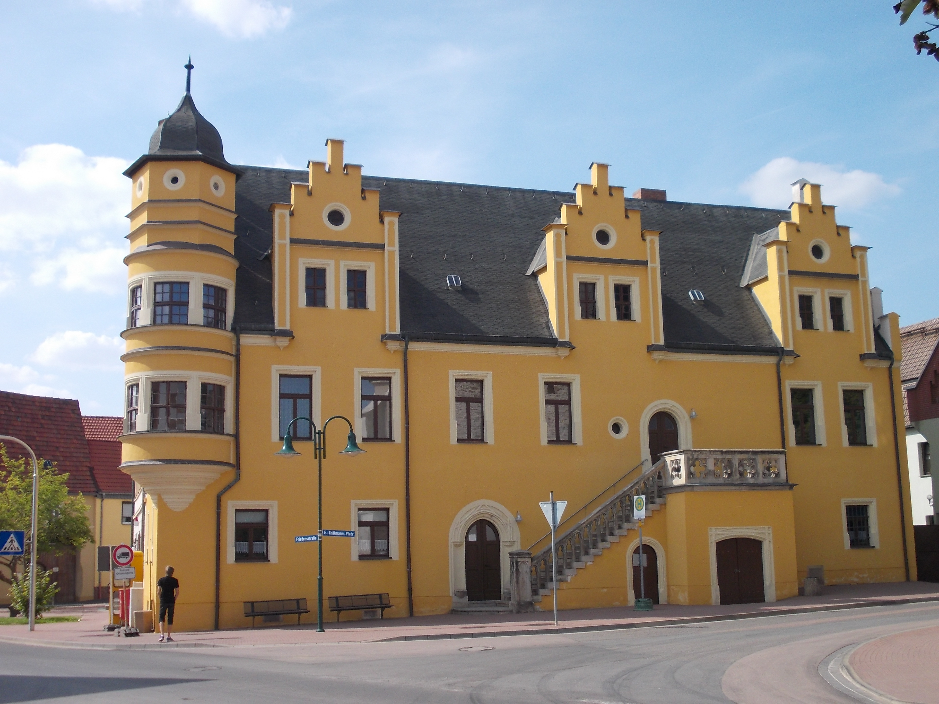 Town hall of Sandersleben/Anhalt (Arnstein, district of Mansfeld-Südharz, Saxony-Anhalt)